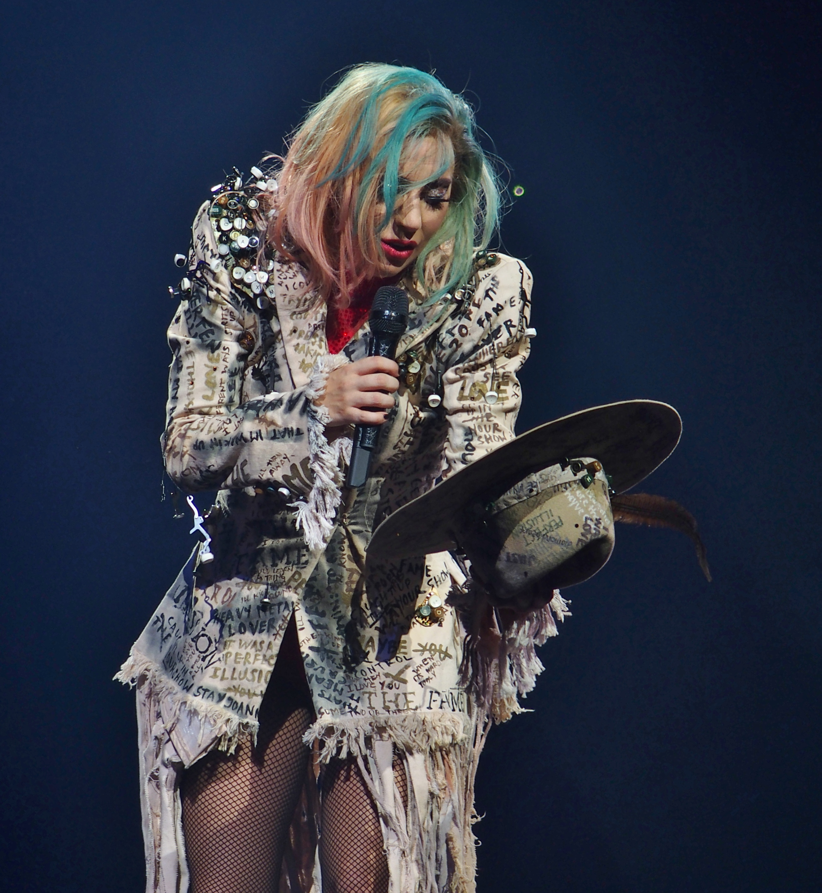 Lady Gaga performing "Angel Down" on the Joanne World Tour